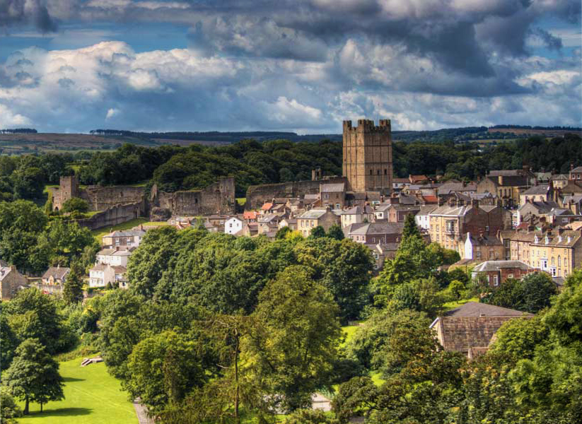 Beautiful photo of Richmond (Yorkshire) from afar - showing the town.